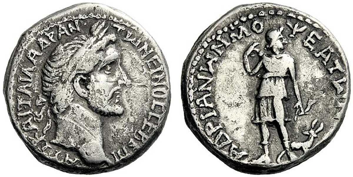 Monnaie frappée en la cité de Mopsos